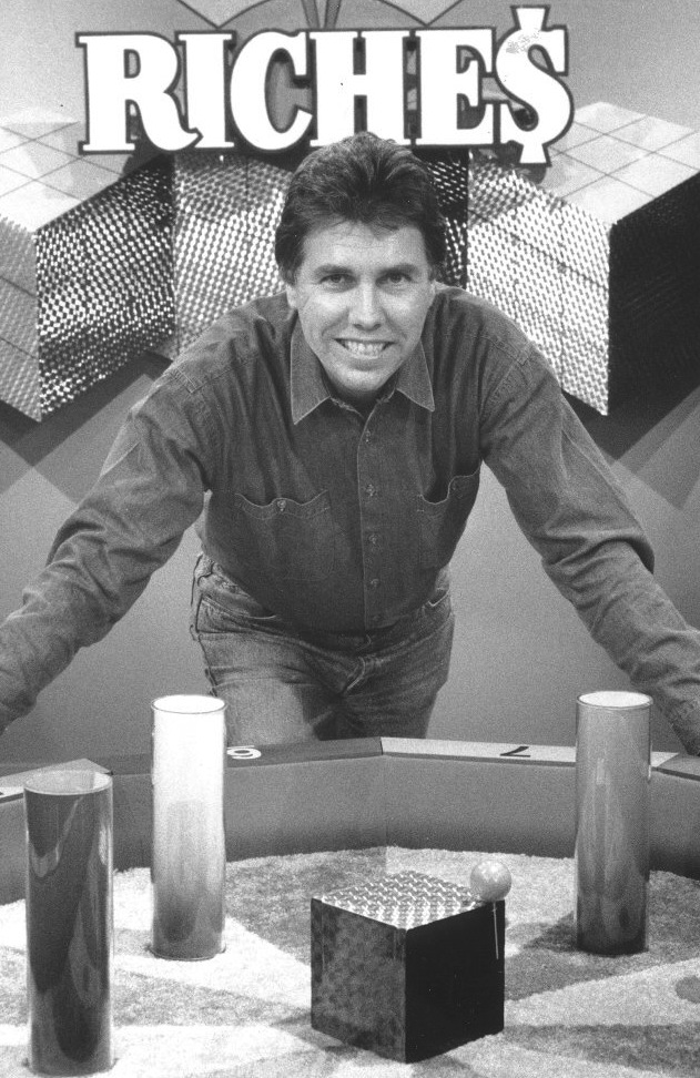 Here we see Steve on the set of Illinois Instant Riches with his “Knockout” game creation.